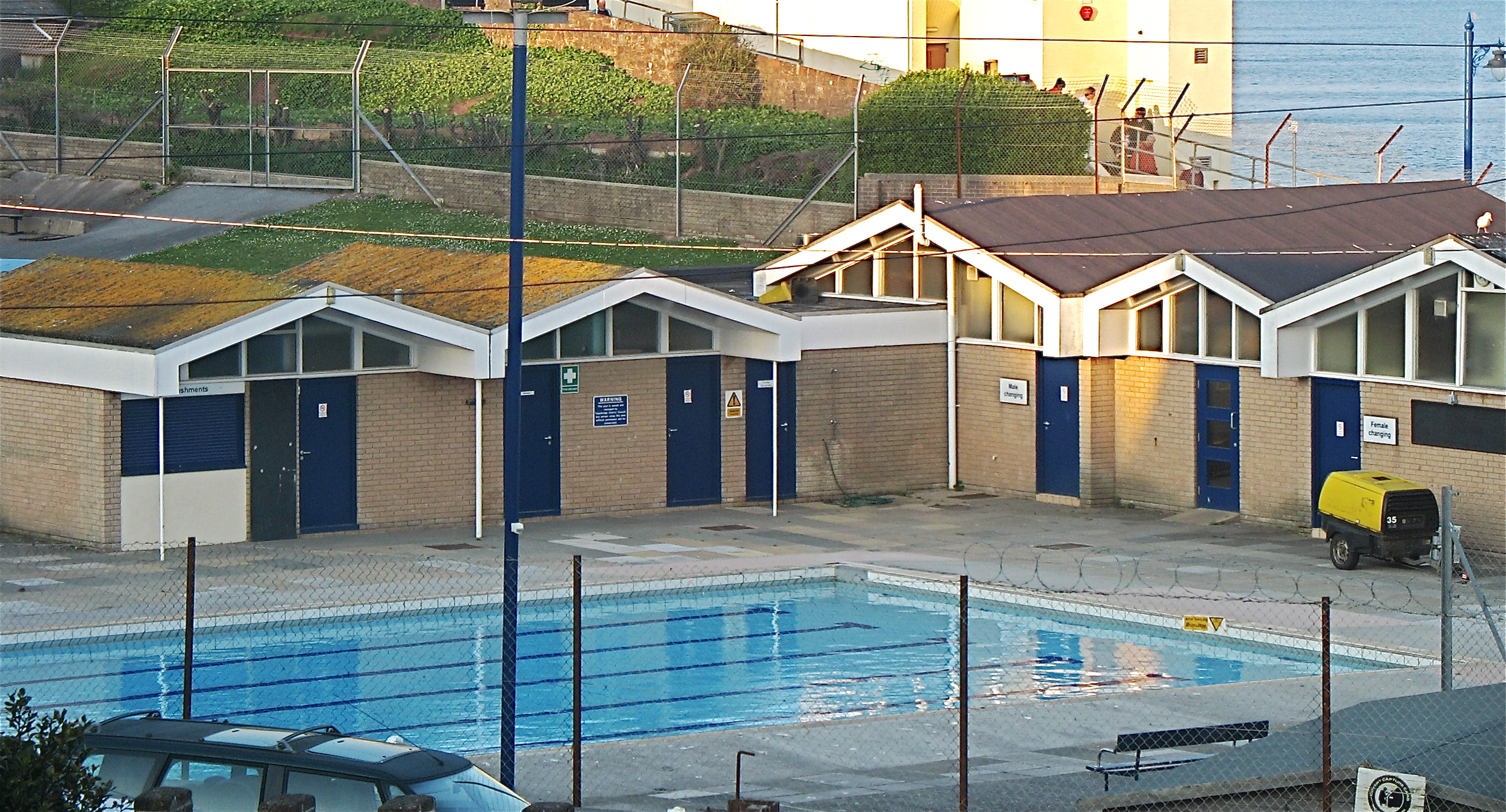 Photograph of Teignmouth Lido